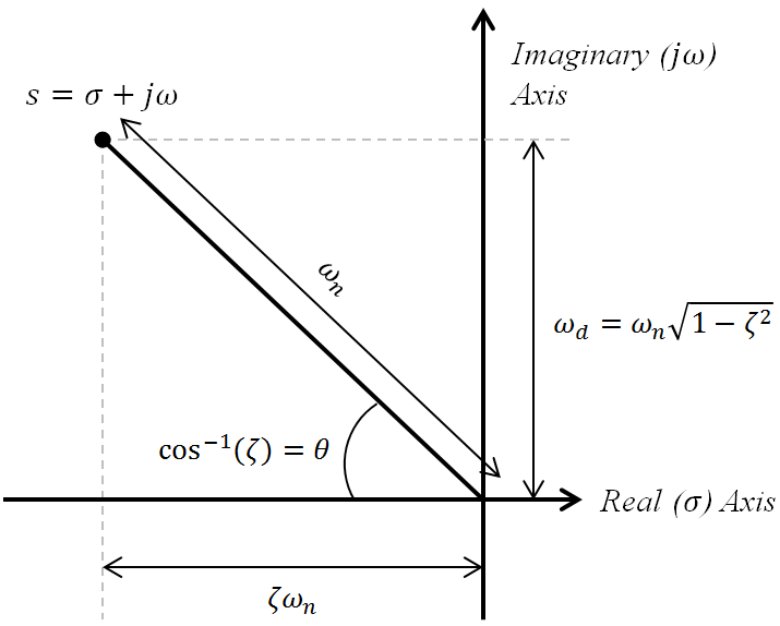 A root locus plot, labeled to show the effect of pole location in the complex s-plane on the natural frequency ωn and damping ratio ζ of a second order system. Not shown is this pole's complex conjugate. Created with Microsoft Powerpoint.